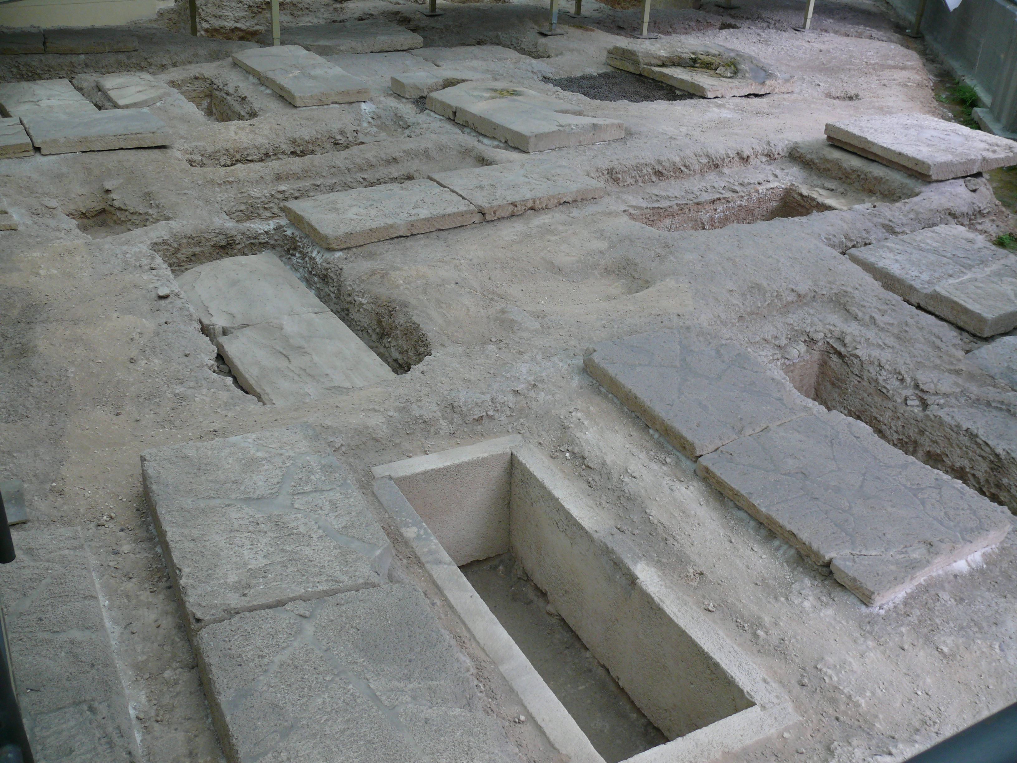 Archaeological site of Via Marche in Taranto: necropolis with sarcophagi and hypogea.